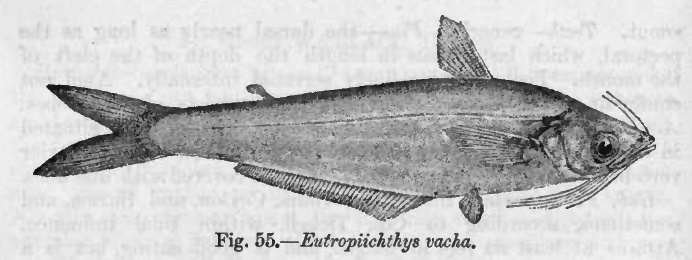 Eutropiichthys vacha (Hamilton, 1822)